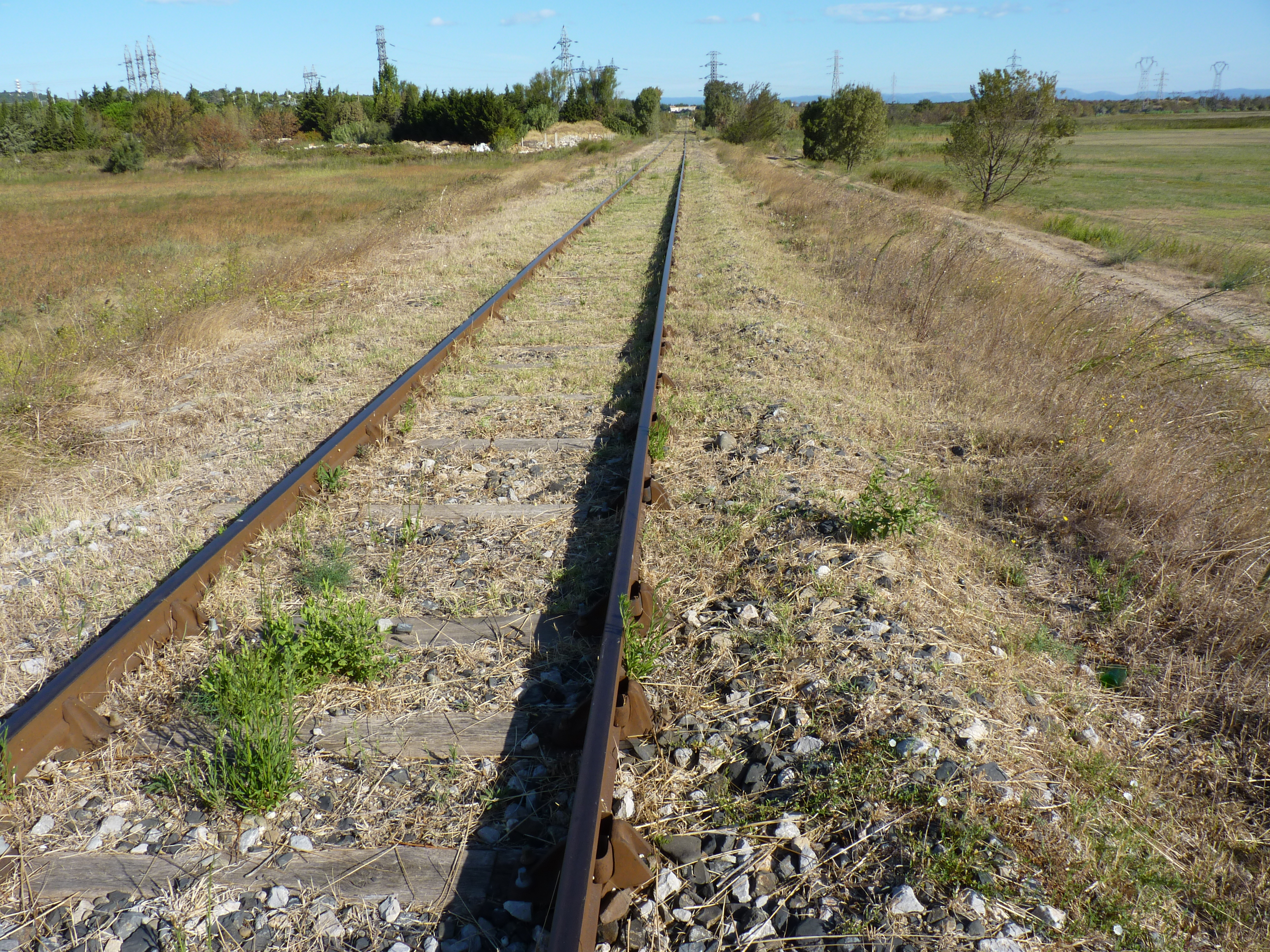 railway line leading to the Malvesi factory